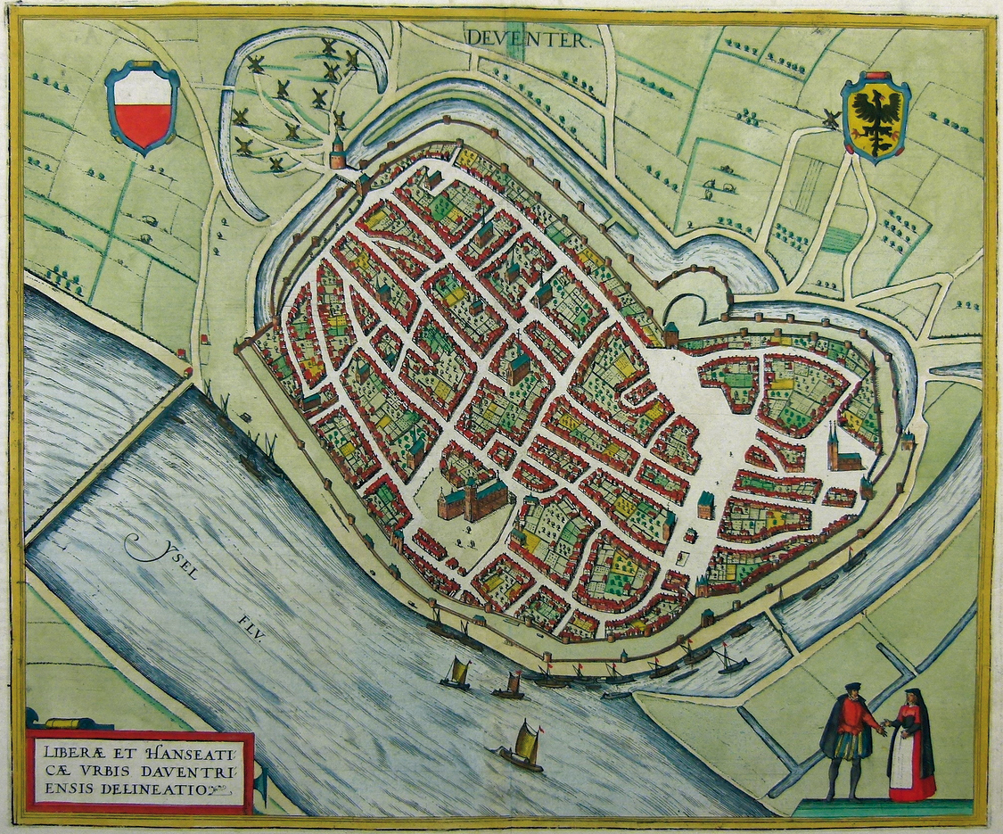 Deventer 1581